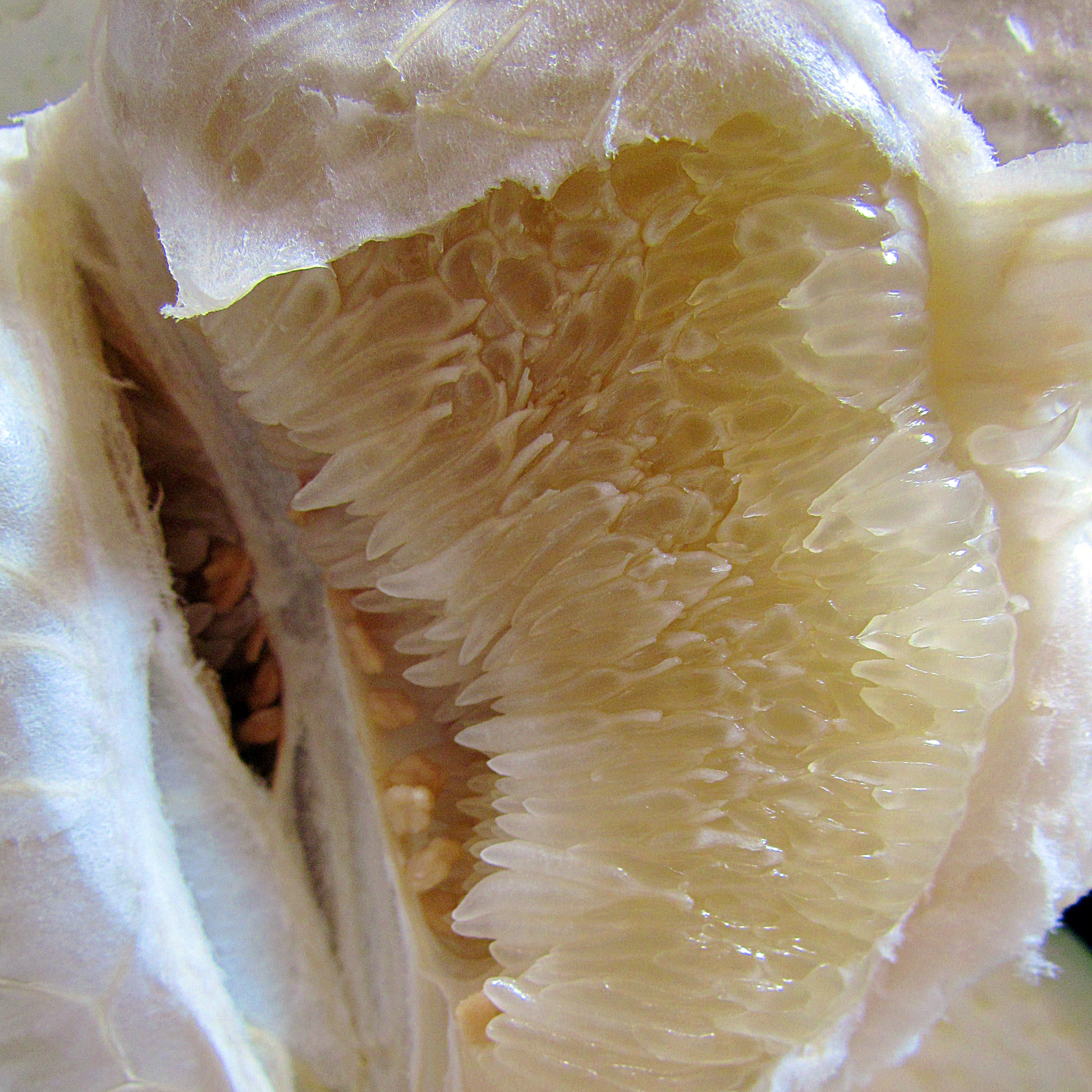 Pomelo hisperidium (Citrus maxima) specialized hair cells